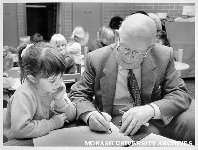 Scotsman Tom Gourdie demonstrating new writing style at Krongold Centre for Exceptional Children, 1985. Photograph by Richard Crompton